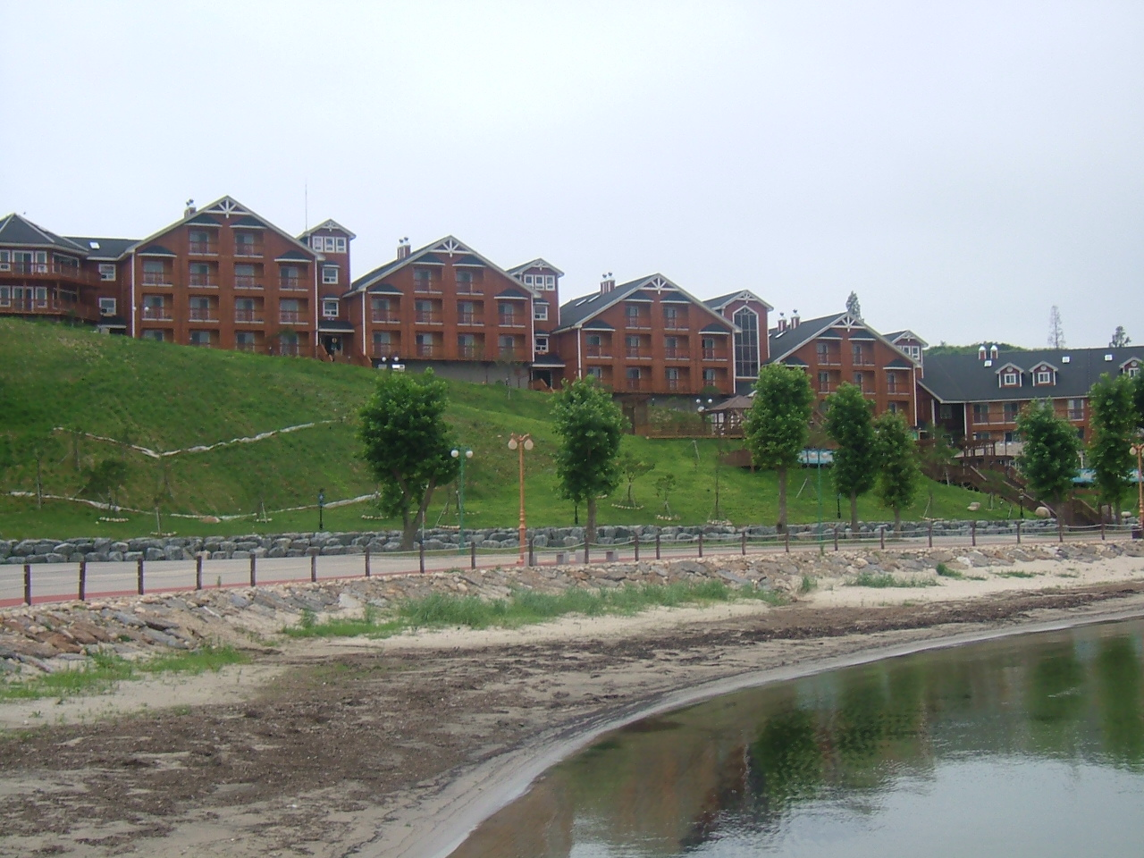 Kumgang Family Beach Hotel